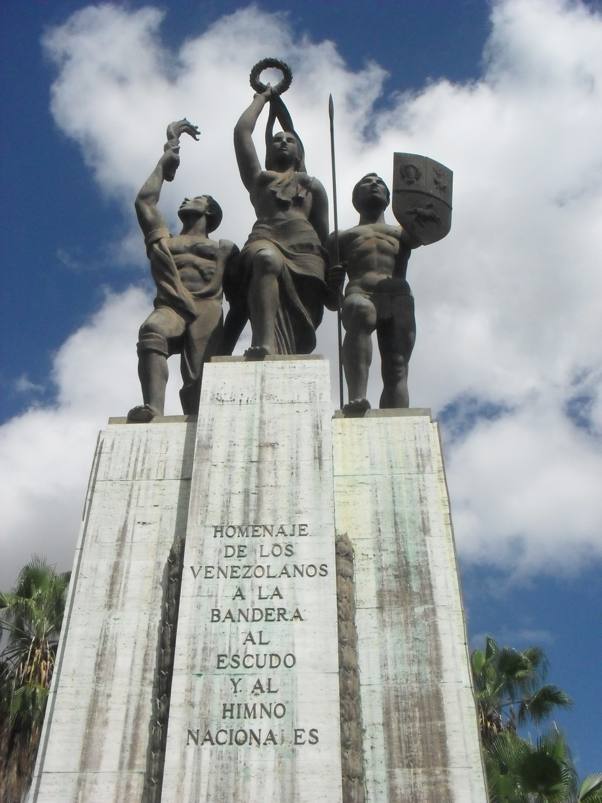 Monument to the symbols patrios Venezuela